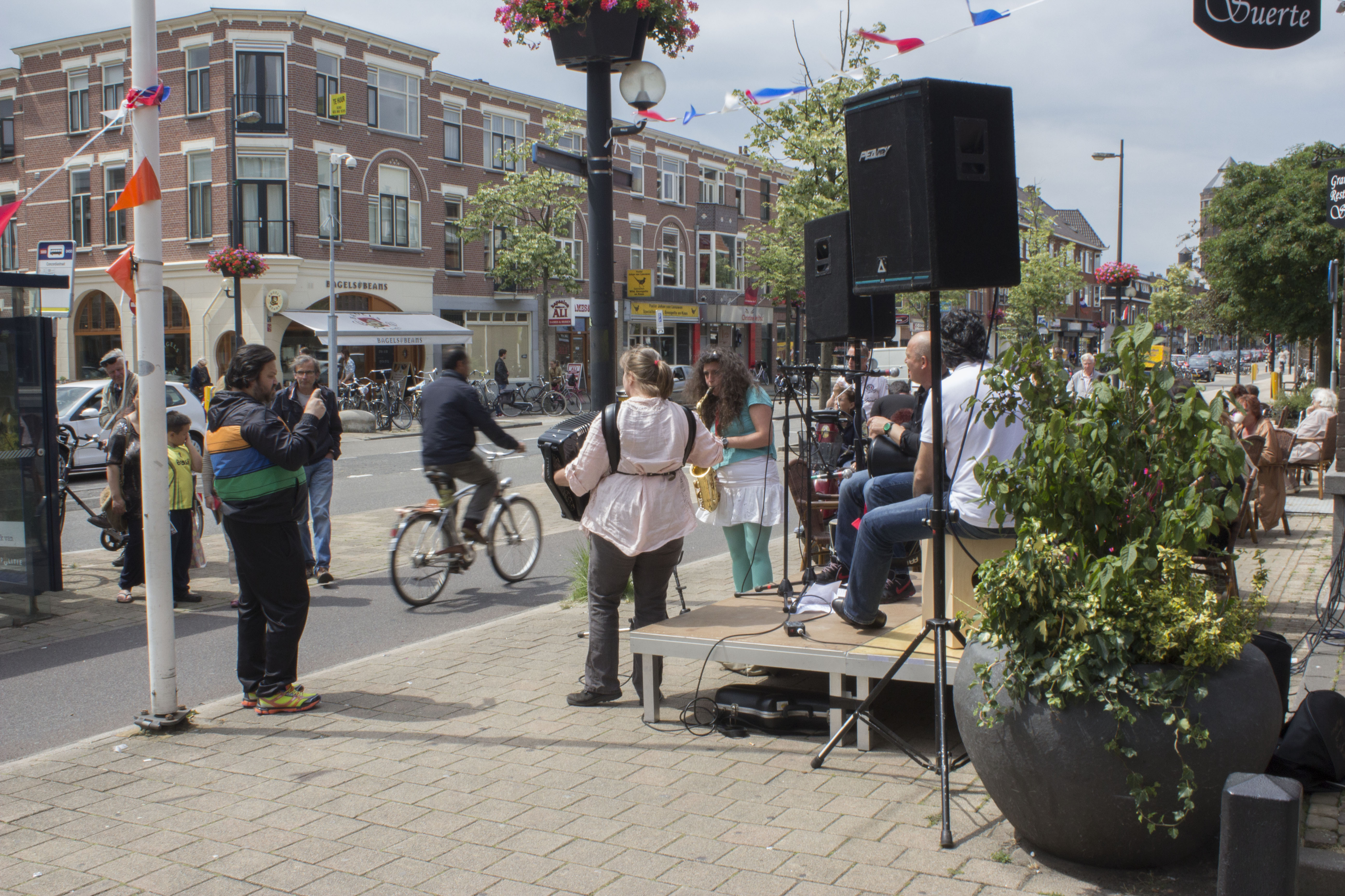 Muzikaal optreden aan de Amsterdamsestraatweg in Utrecht op 21 juni 2014 als onderdeel van Fête de la Musique.